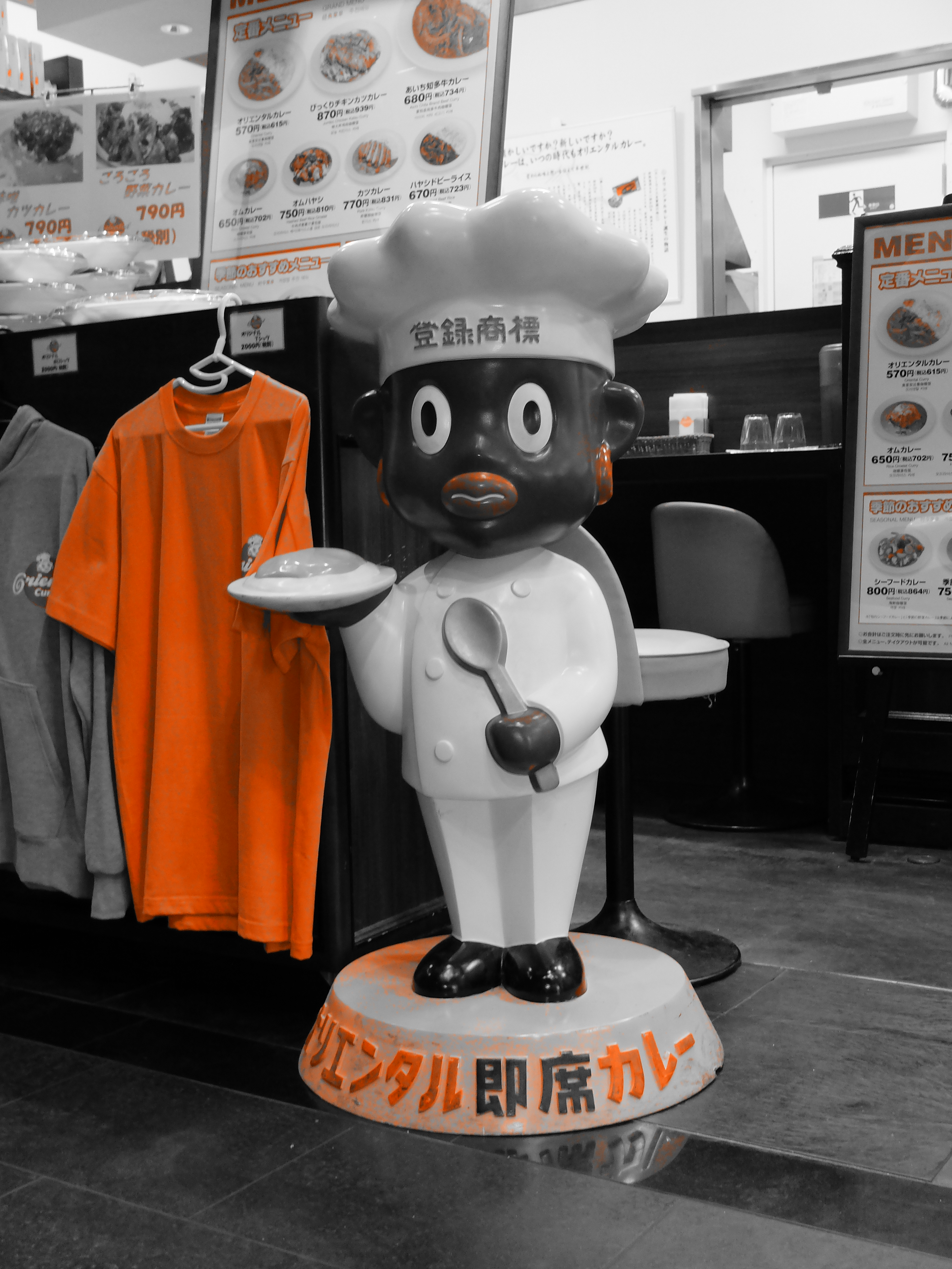 Mascots character of Oriental Company